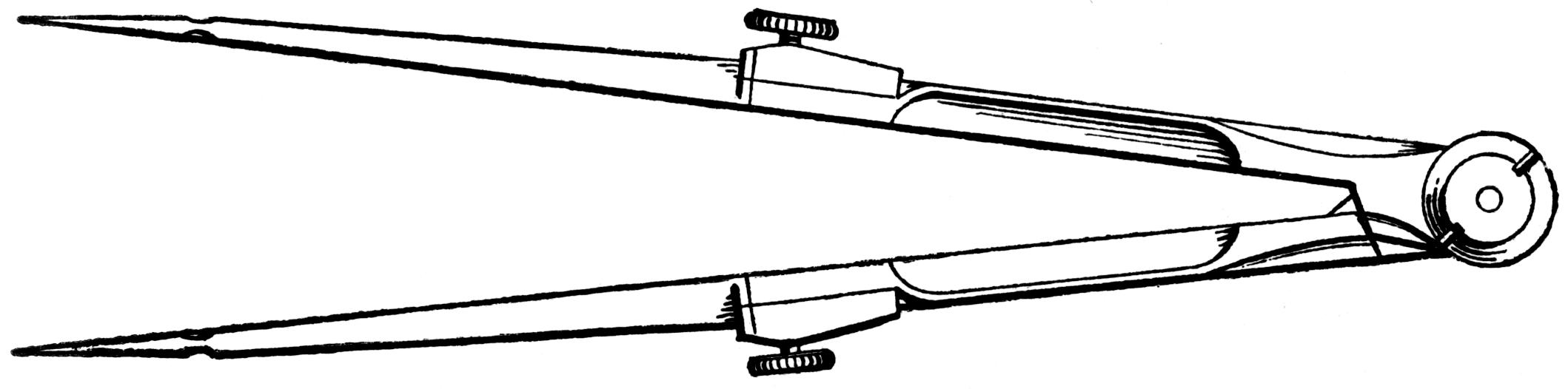 Dividers are like compasses but with two sharp points, and can be used for measuring distances.